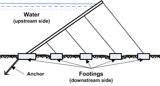 Cross sectional view of a Steel dam, direct strutted variant.